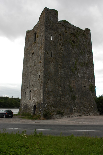 Belvelly Castle 15th century tower house